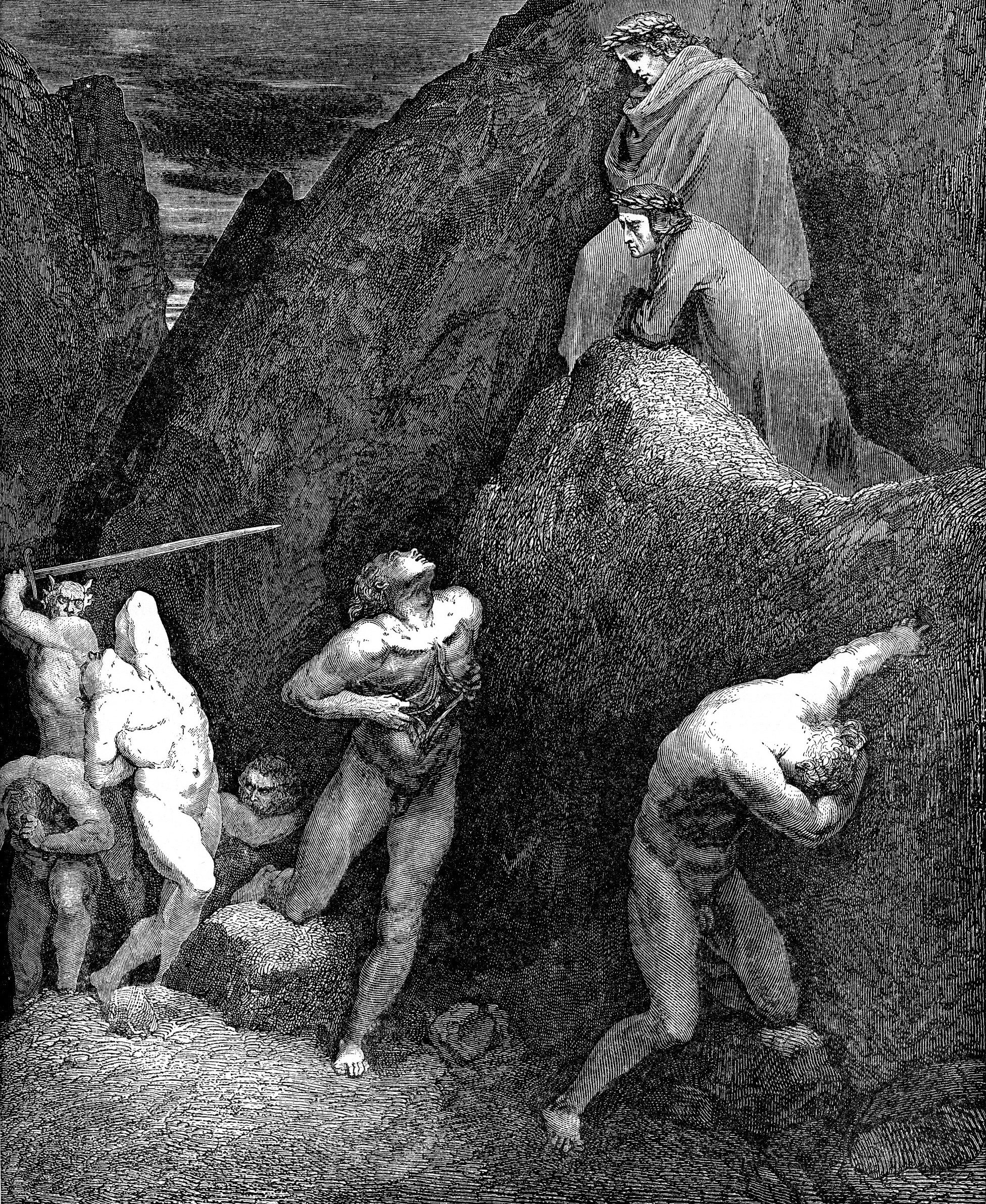 High resolution scan of engraving by Gustave Doré illustrating Canto XXVIII of Divine Comedy, Inferno, by Dante Alighieri. Caption: Mutilated Shades of Mahomet